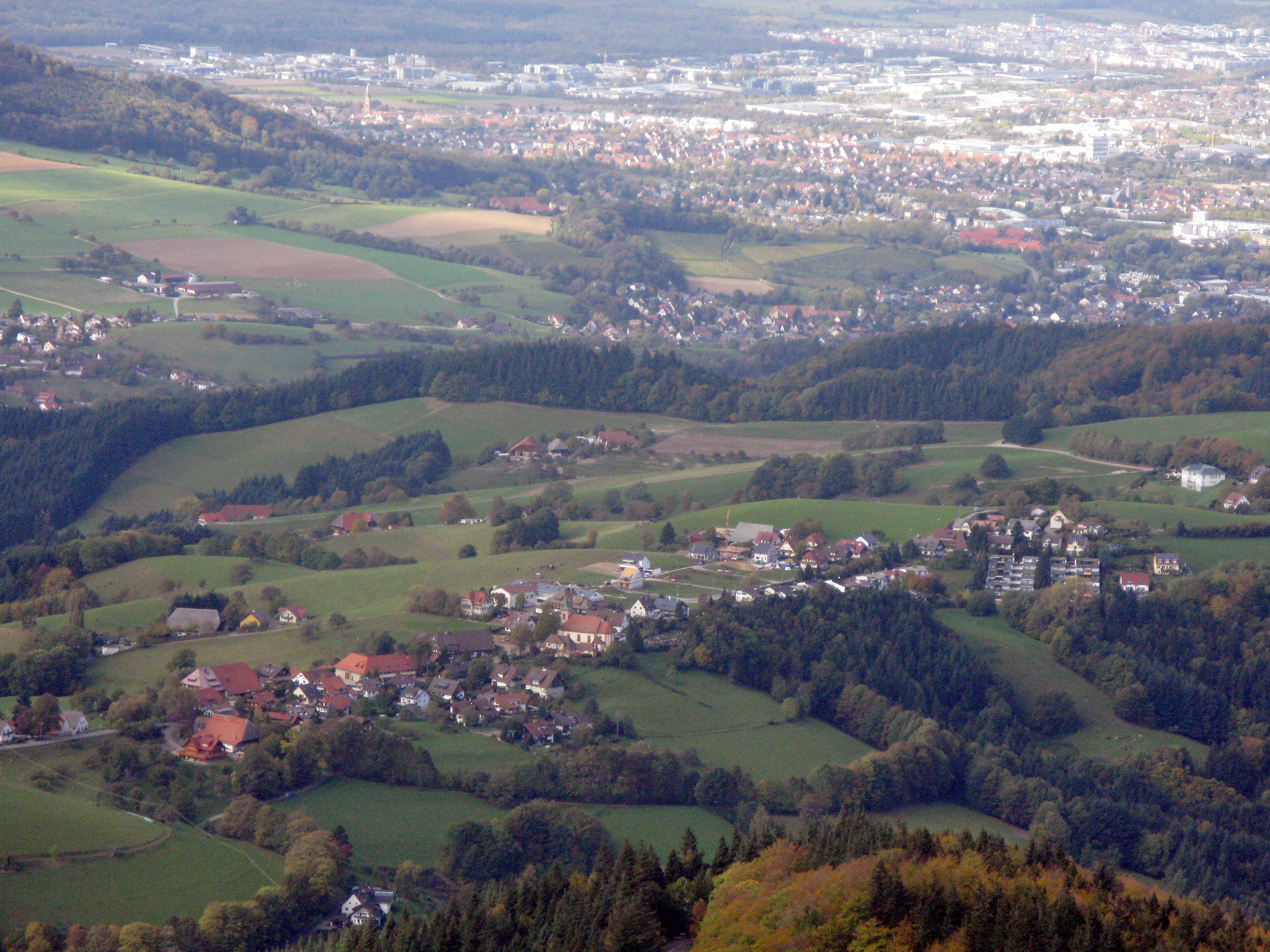 Horben seen from the Schauinsland mountain, in the background Merzhausen and Freiburg